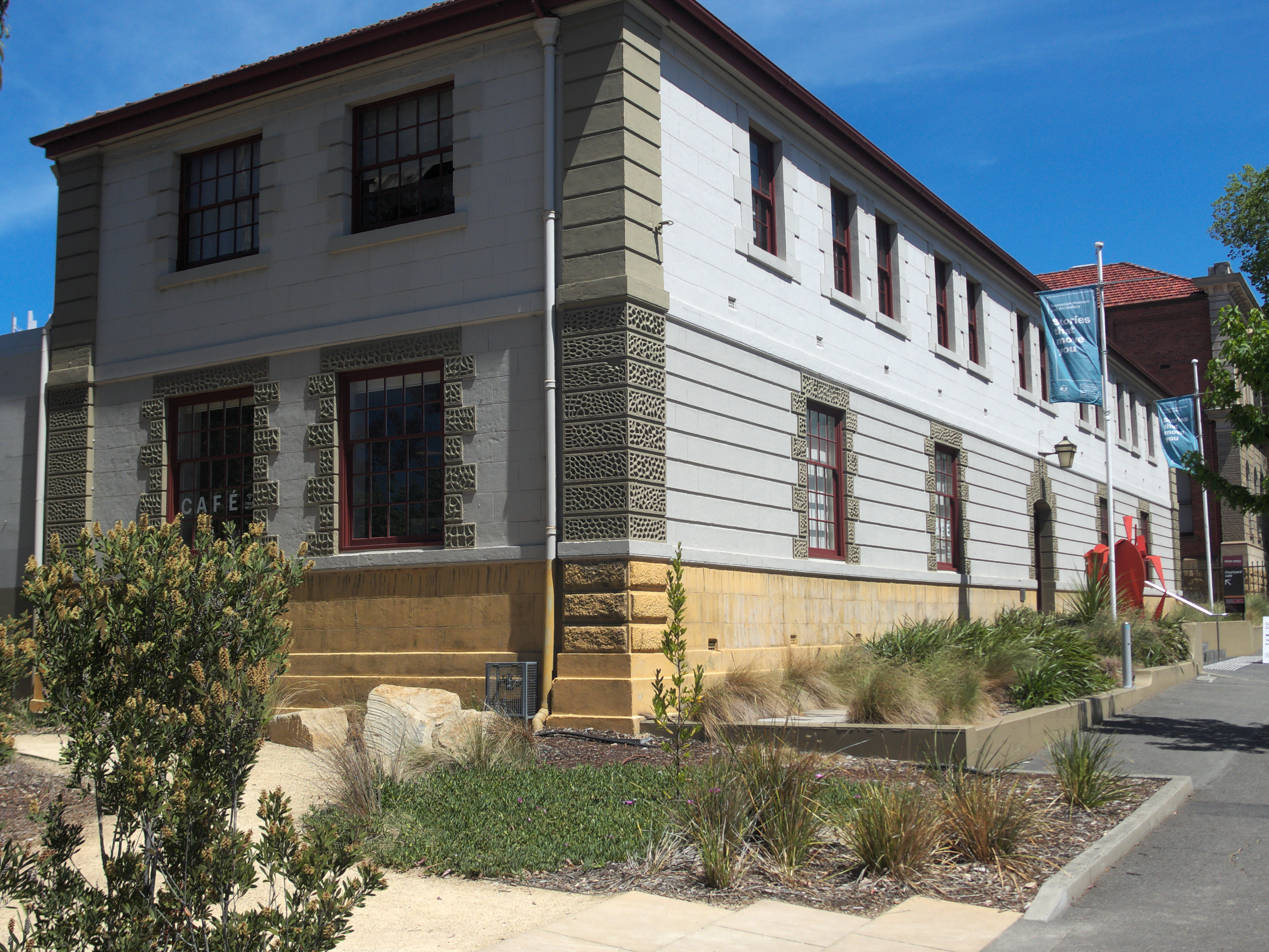 Commissariat Store, Hobart, facing Macquarie Street.